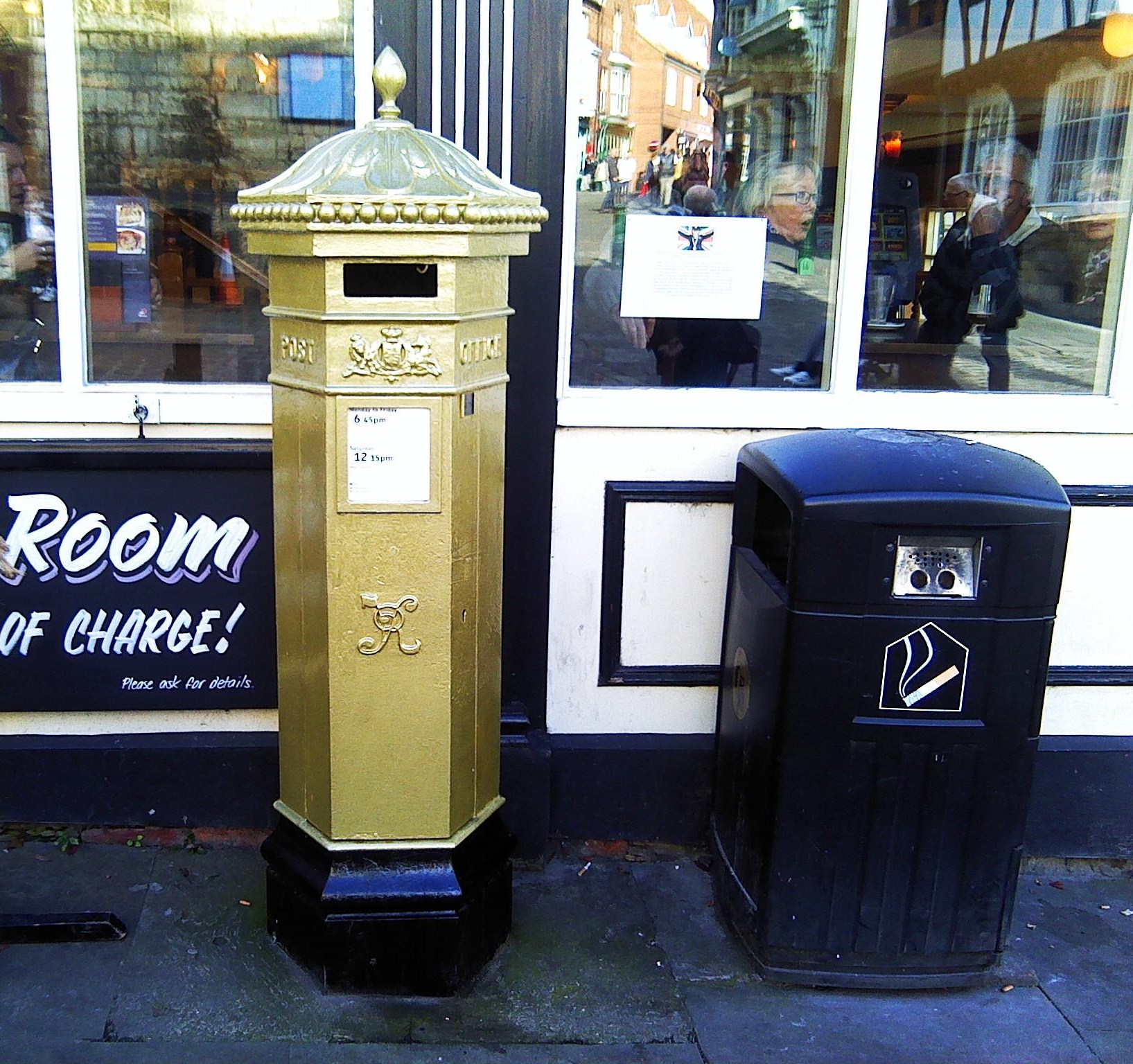 The Gold Penfold post box in Lincoln which is located within the Cathedral Quarter of the city in front of the Magna Carta Public House. It was painted in honour of Paralympian Sophie Wells who won the gold medal in the Equestrian team event in the 2012 Paralympic Games in London. It is the only Gold post box in Lincolnshire.